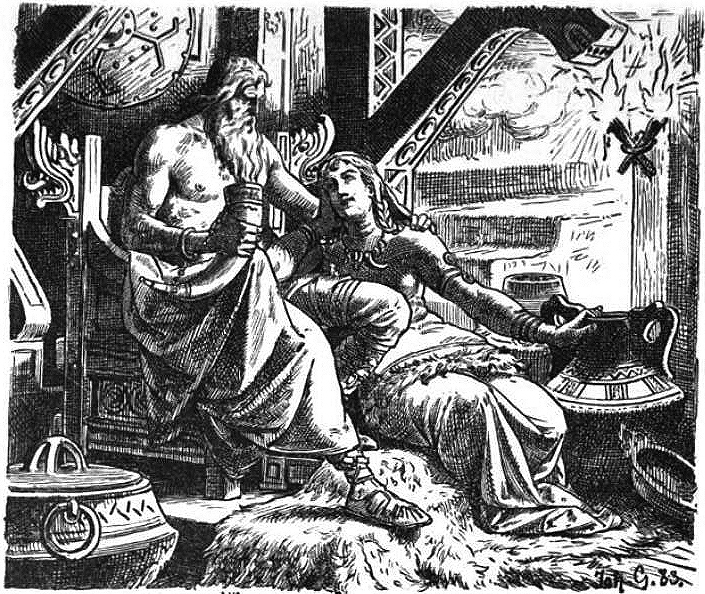 "Odin with Gunnlöd" (1901) by Johannes Gehrts. The god Odin sits holding a drinking horn, his arm around Gunnlöð, who looks towards him.